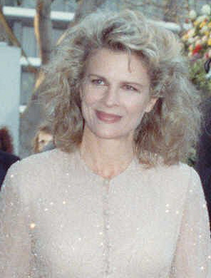 Candice Bergen at the 62nd Academy Awards